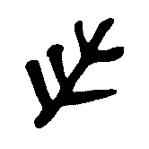 Elder Sign, following H P Lovecraft, as appended in a letter to Clark Ashton Smith, 7 November 1930